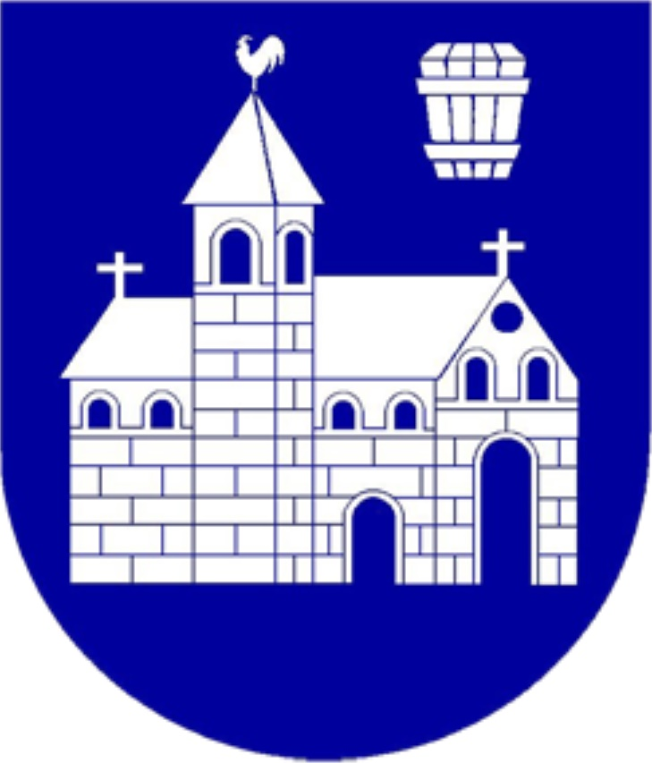 Coat of arms of Sankt Ruprecht an der Raab, Styria, Austria; valid until 2014